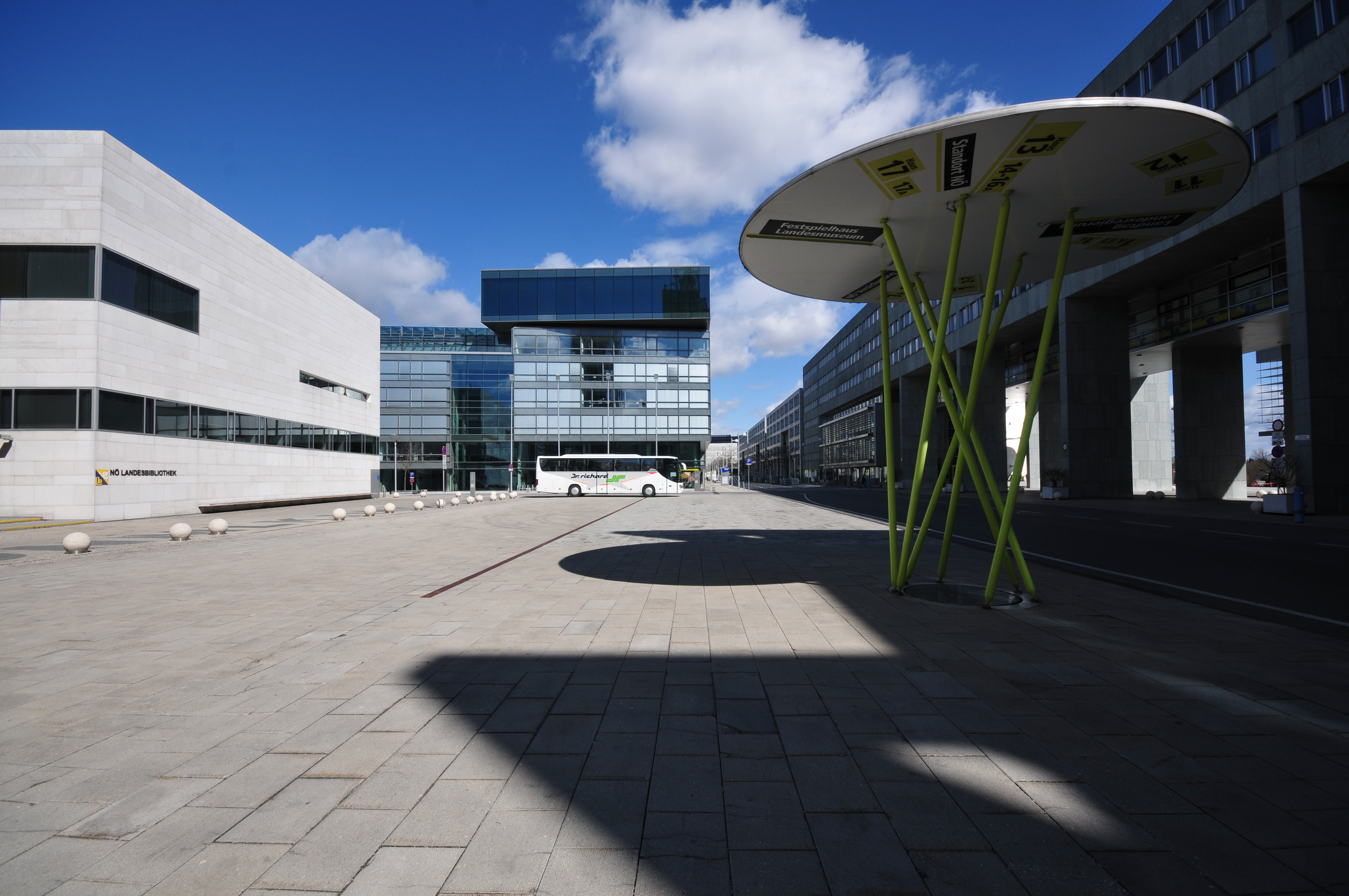 St. Pölten, Austria, Landhausviertel Fotowanderung St. Pölten 13. April 2013 in St. Pölten, Niederösterreich 50mm • Allgemeines • Bahnhof • Domplatz • Fahrräder • Landhausviertel • Rathausplatz